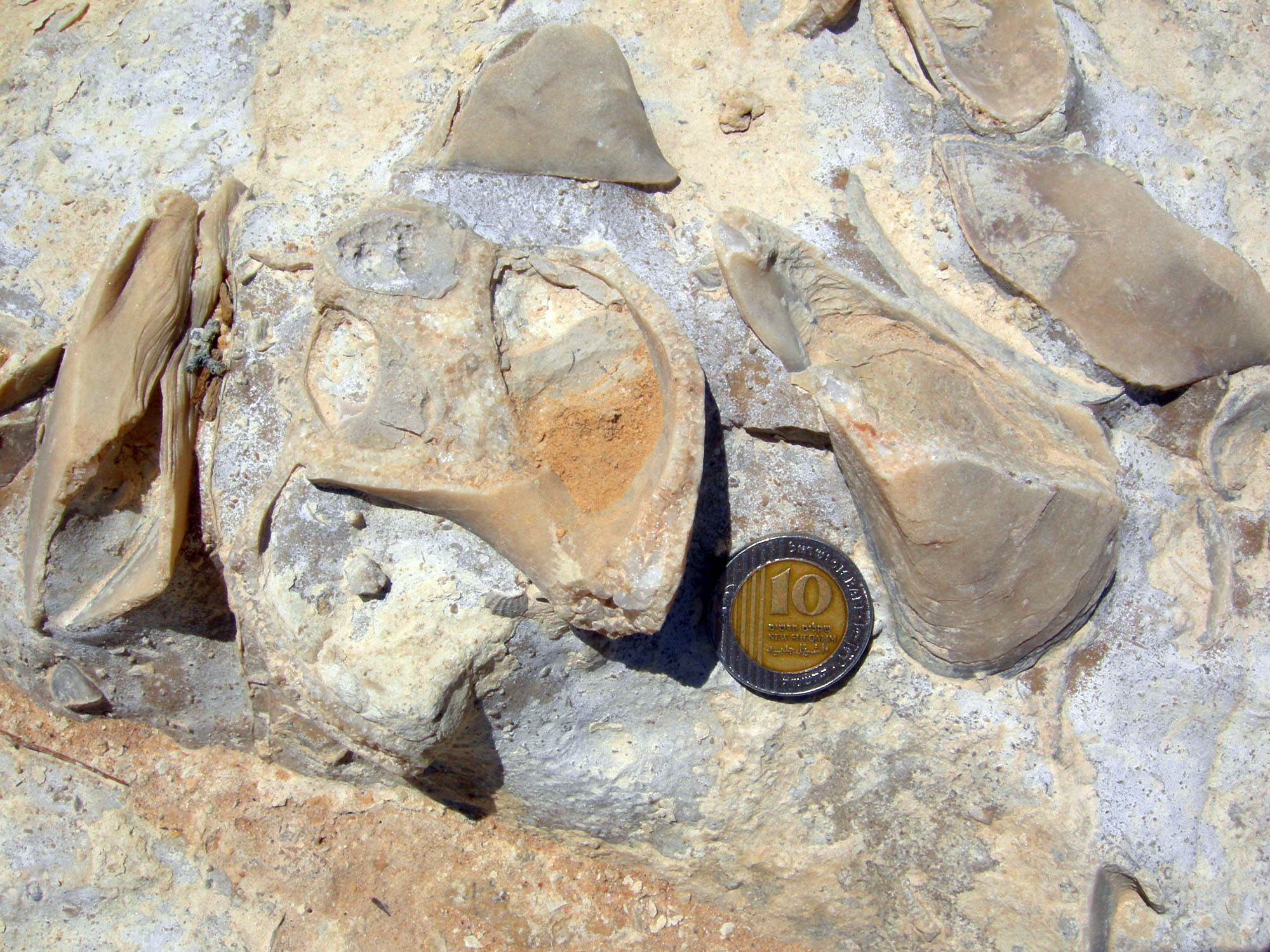 Gastropod and attached mytilid bivalves on a Jurassic limestone bedding plane in southern Israel. The coin diameter is 23 mm (0.9")